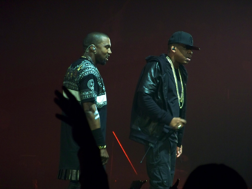 Kanye West and Jay-Z performing at Staples Center on December 11, 2011 in Los Angeles on their Watch the Throne Tour.